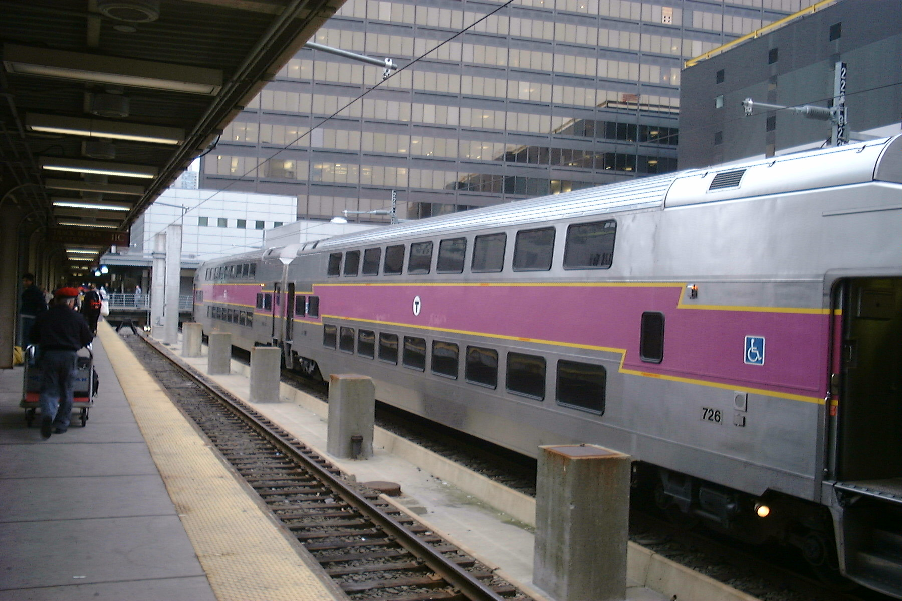 MBTA #726, a Kawasaki BTC-4, at South Station in Boston.